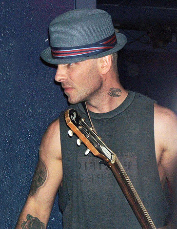 Photograph of Tim Armstrong taken at the Echo, LA. During Rancid's acoustic set. Spring 2006.